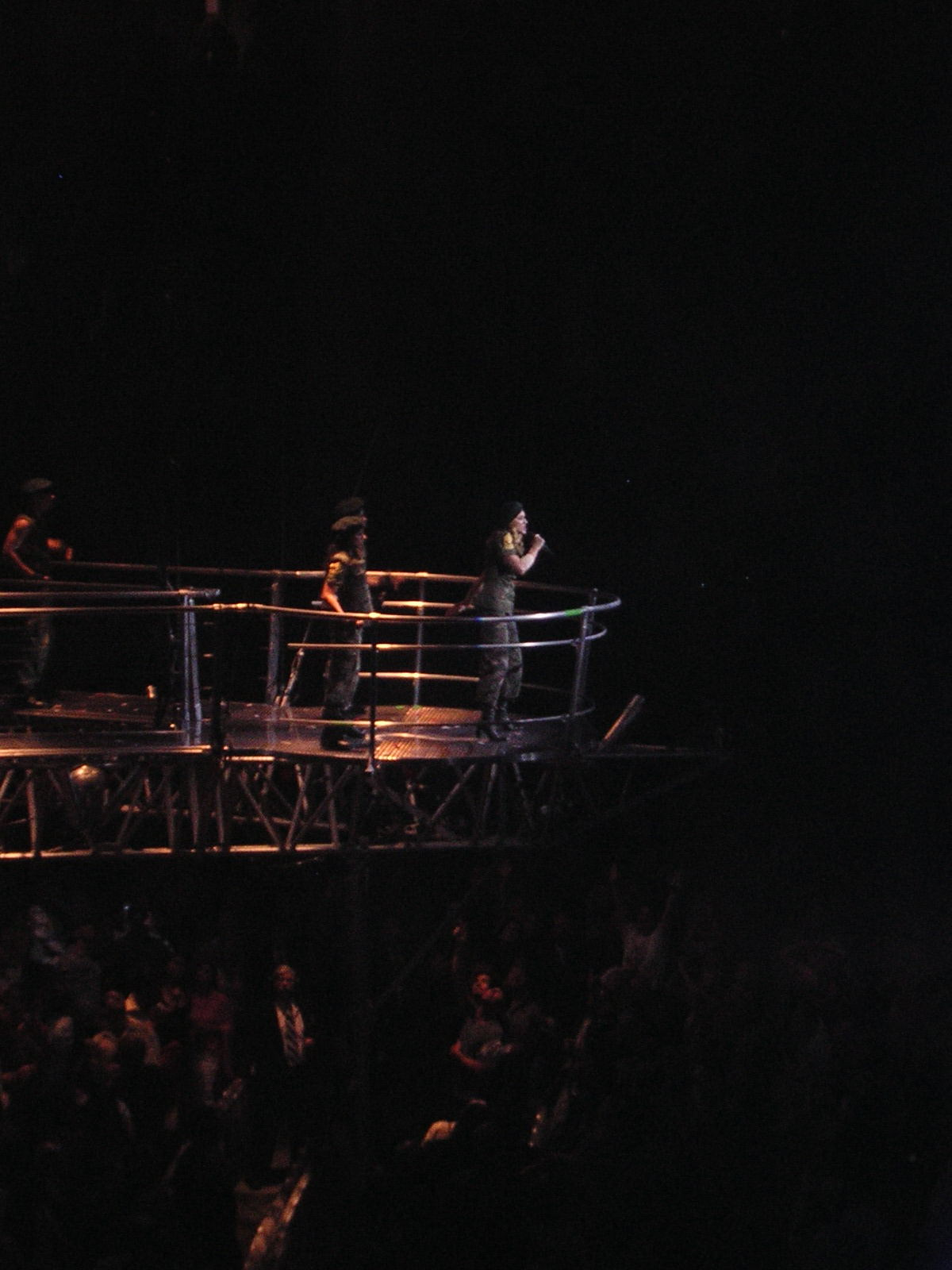 Madonna performing "American Life"